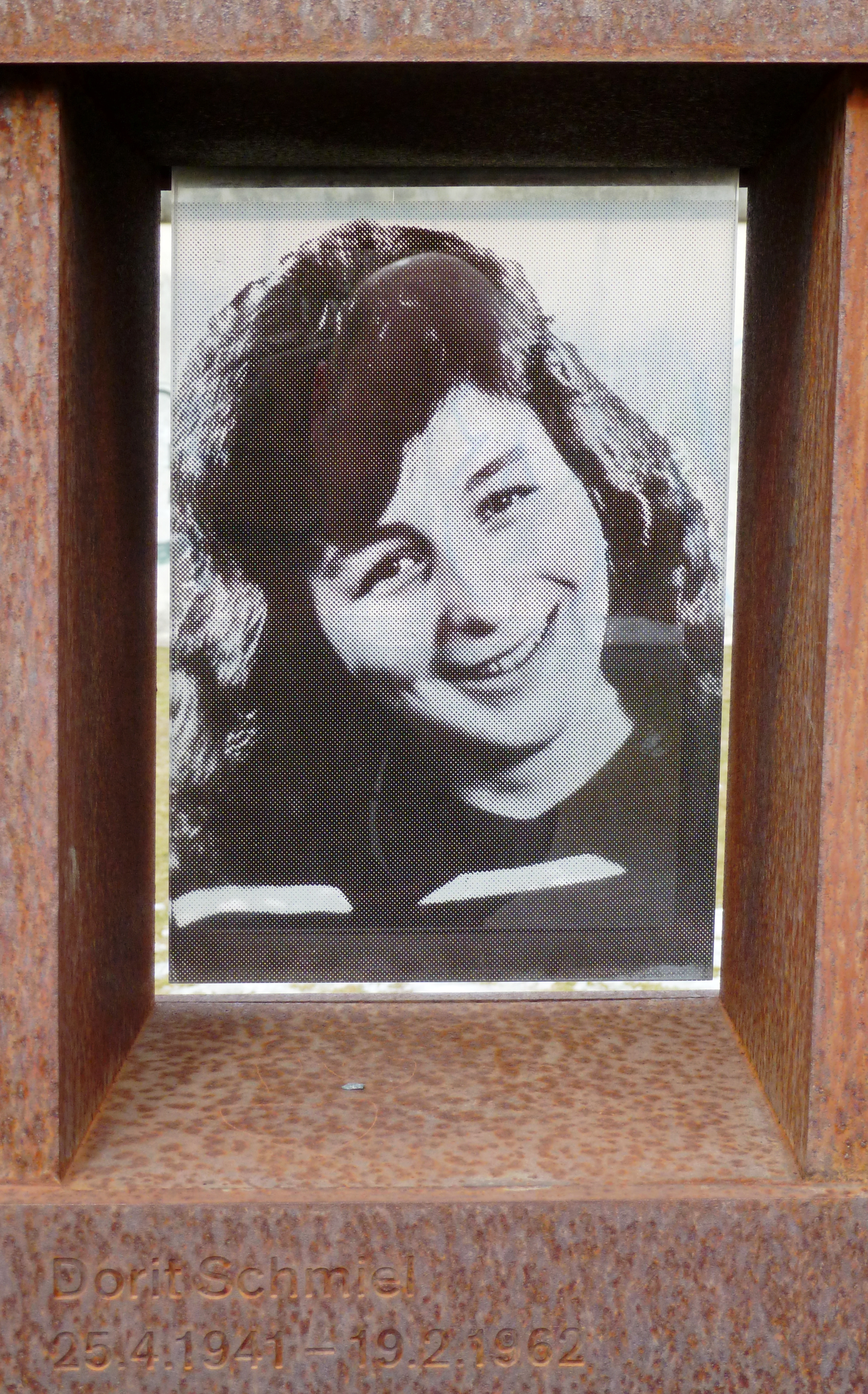 Dorit Schmiel's photo. I took the picture myself at the Berlin Wall Memorial on Bernauer Strasse, in Berlin